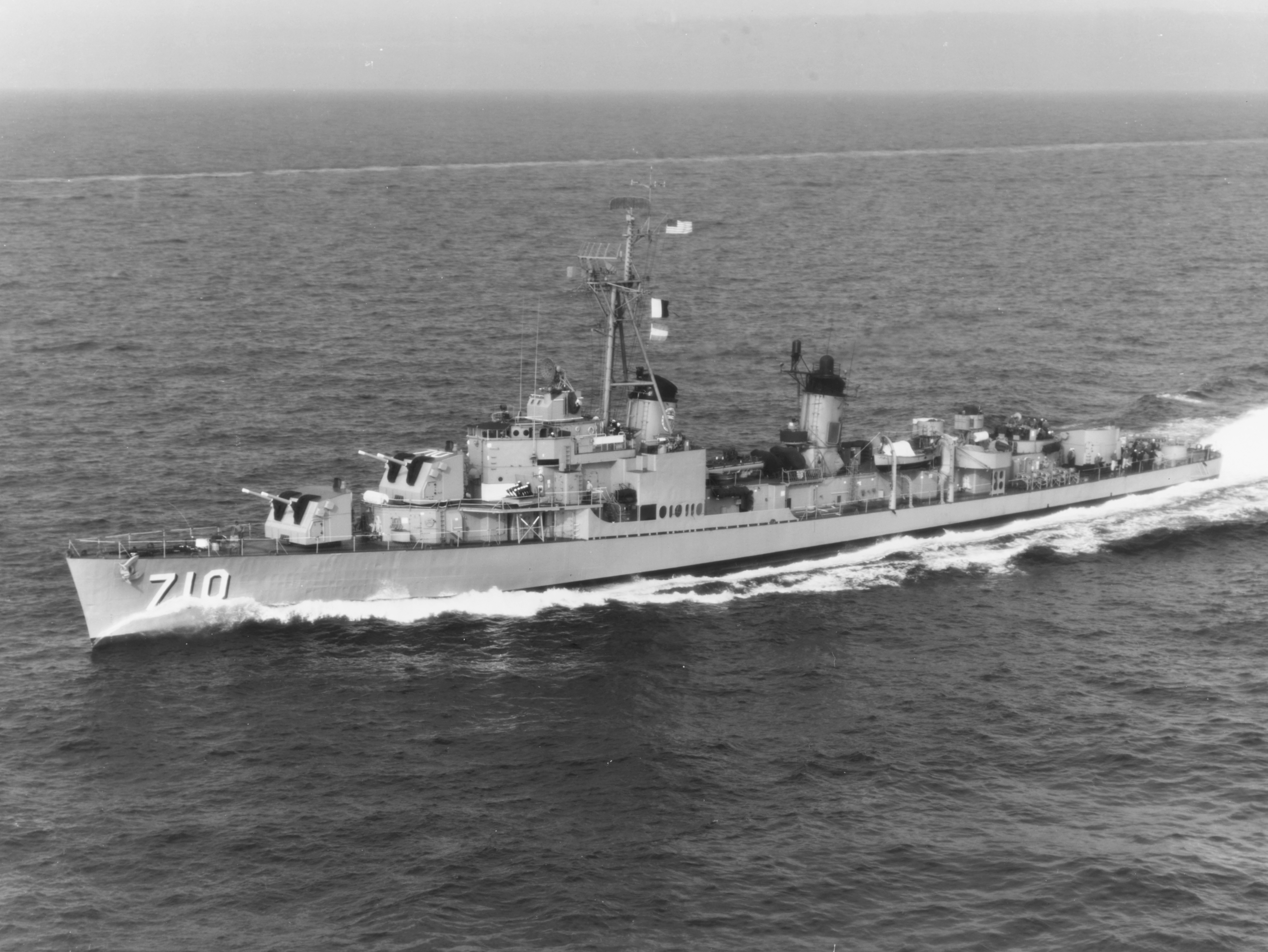 The U.S. Navy destroyer USS Gearing (DD-710) underway on 27 February 1960, while operating the Sixth Fleet in the Mediterranean Sea.